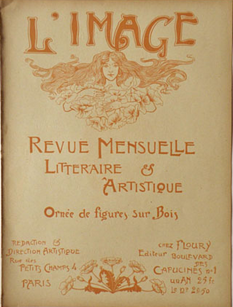 Lithographic front cover of L'Image issue May 1897, designed by Jacques Drogue, printed in Paris by Henri Floury.